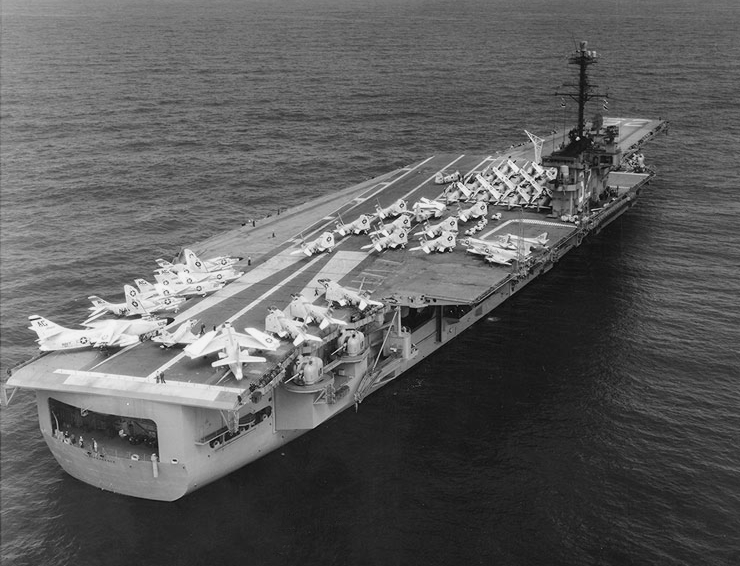 The U.S. Navy aircraft carrier USS Independence (CVA-62) photographed in April 1959, during her shakedown cruise. Planes on deck include the following types from Carrier Air Group 7 (CVG-7): Douglas A3D "Skywarrior" (including BuNo 135420, an A3D-1), Heavy Attack Squadron VAH-1 Smokin' Tigers; Douglas A4D-2 "Skyhawk" (including BuNos 142708 and 142712), Attack Squadron VA-86 Sidewiders; McDonnell F3H-2 "Demon" (including BuNos 143434, 143447, 143448 and 143474), Fighter Squadron VF-41 Black Aces; Vought F8U-1 "Crusader" (including BuNos 145386 and 145429), VF-11 Red Rippers. Note paint pattern on the carrier's landing path.